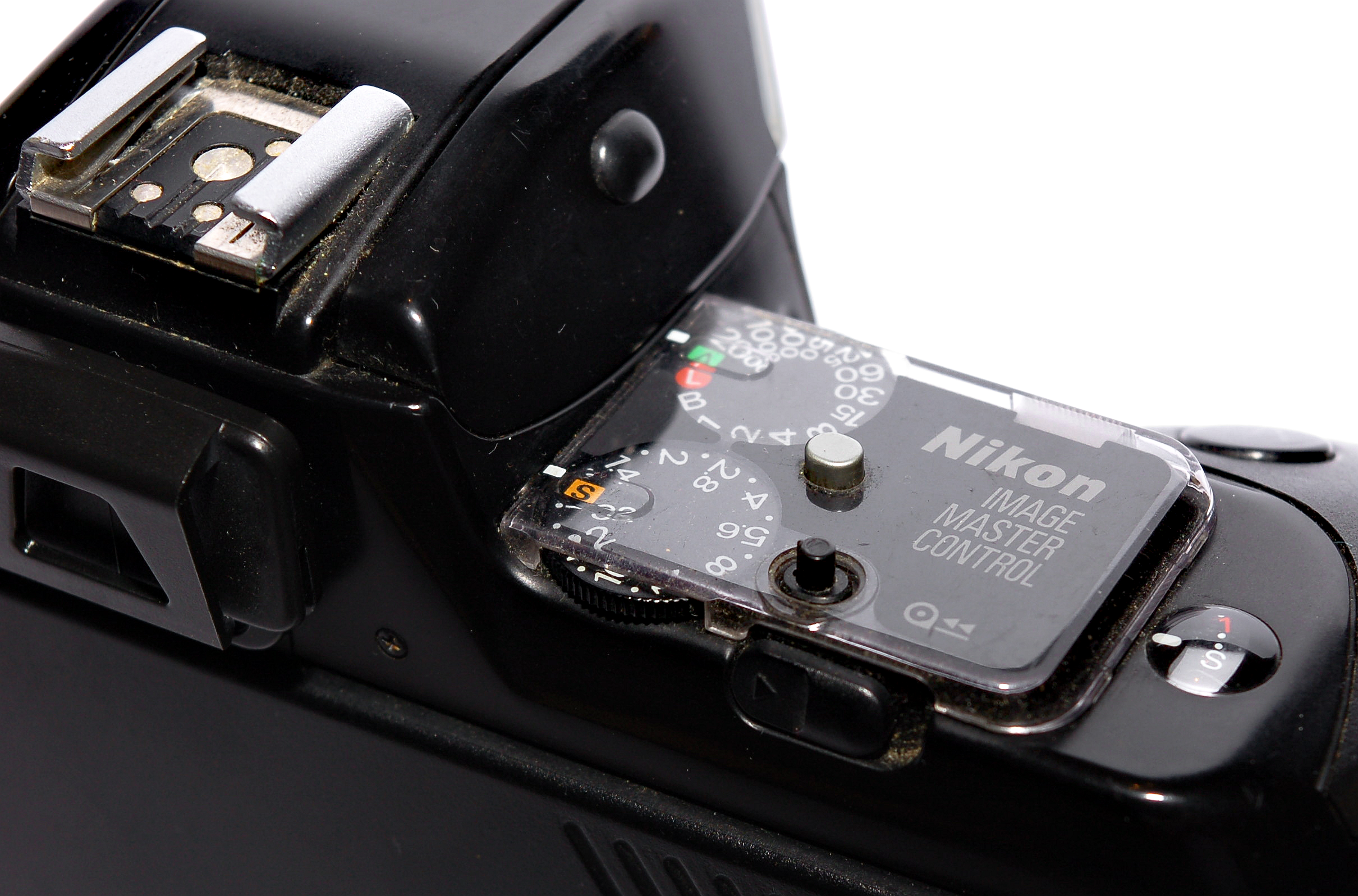 The F-401s (N4004s in North America) is an electronic 35mm film SLR from 1989 and was released as a minor update over the original model, which hit the market two years earlier. The primary difference is slightly improved AF accuracy and speed. Being Nikon's entry-level SLR of the day, features are limited and the camera is intended to be used in the fully automatic mode dubbed Image Master Control for the most part. While both aperture and shutter dials are included, the viewfinder is severely limited in terms of information it can display, relying on a basic under-/overexposure warning and flash advisory in addition to a "Focus OK" indicator. Also missing is some quick-access method for exposure compensation.Lens compatibility is best with screw-drive AF lenses. The camera can't meter with Nikon AI glass, and AF functionality is not available with later AF-S models. Film transport is automatic resp. motorized.